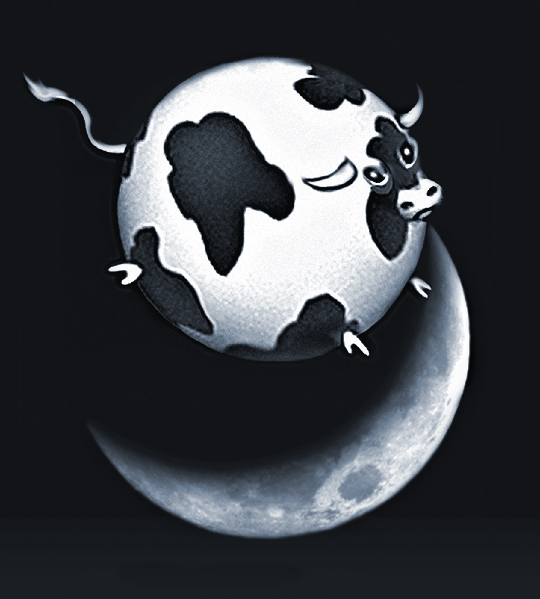 Program cover illustration from the 1996 meeting of the American Astronomical Association